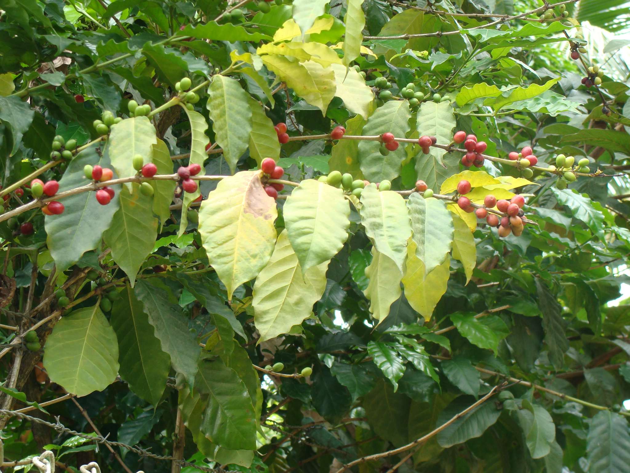 A coffee tree along a fence from a cattle hacienda, Serranía del Interior, near San Juan de los Morros, Venezuela